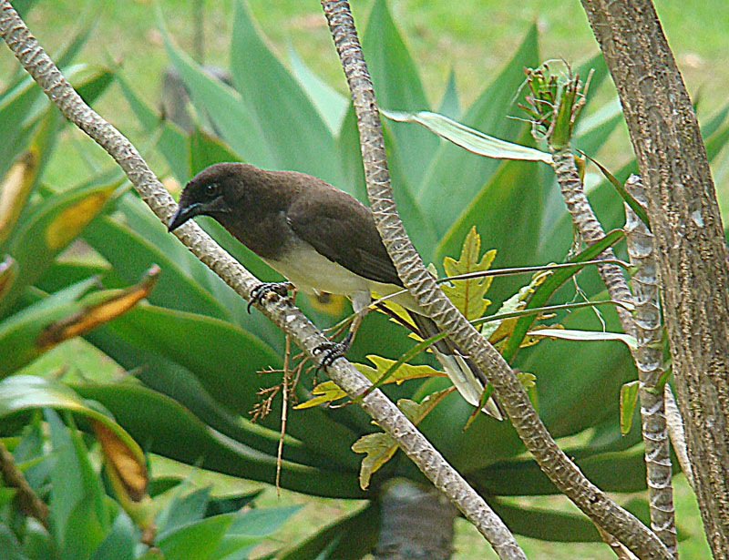 Known locally as Chara Papan or as Urraca Parda. At Monteverde Costa Rica, with the white belly of a southern race. In context at